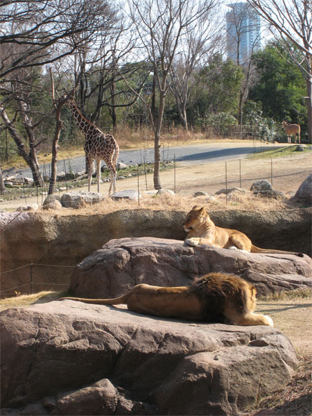 A photo of the savanna area of Tennoji Zoo in Osaka, Japan. Photo by Japanese user Fk.